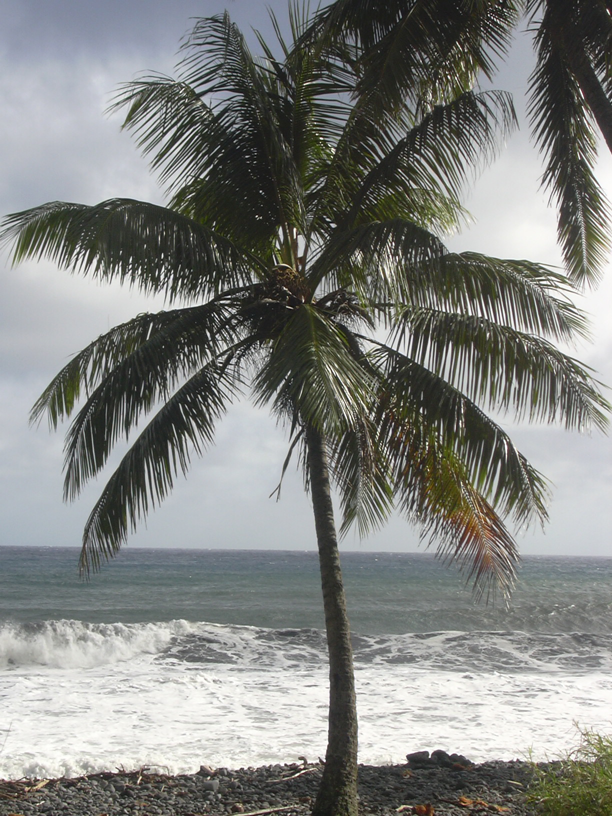 Cocos nucifera (habit). Location: Maui, Lelekea